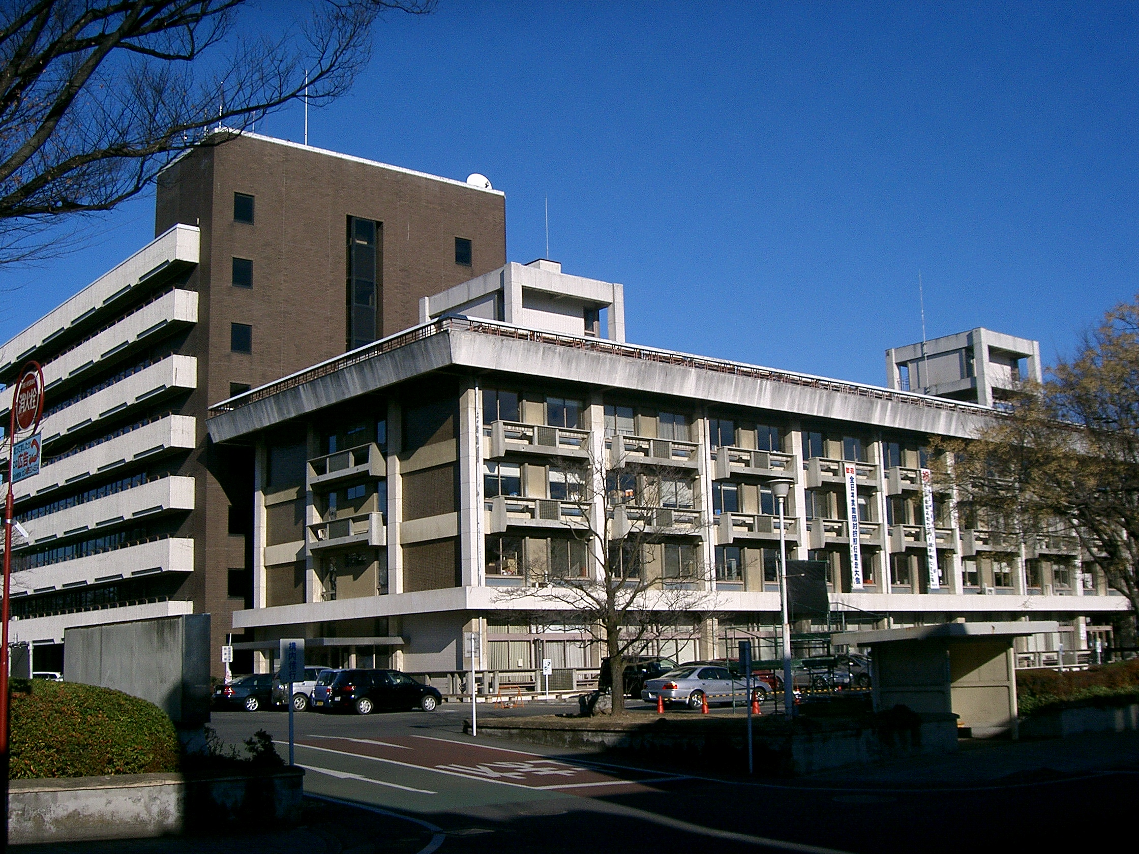 Kiryu City Office